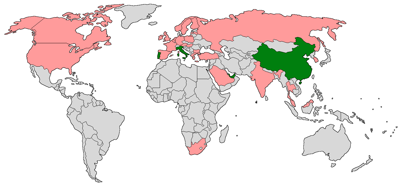 World map displaying the countries raced in by the Formula 1 Powerboat World Championship in its 2006 season in green. Former host nations shown in pink.